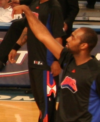 New York Knicks player Mardy Collins warms up before a 2007 preseason game vs the Boston Celtics